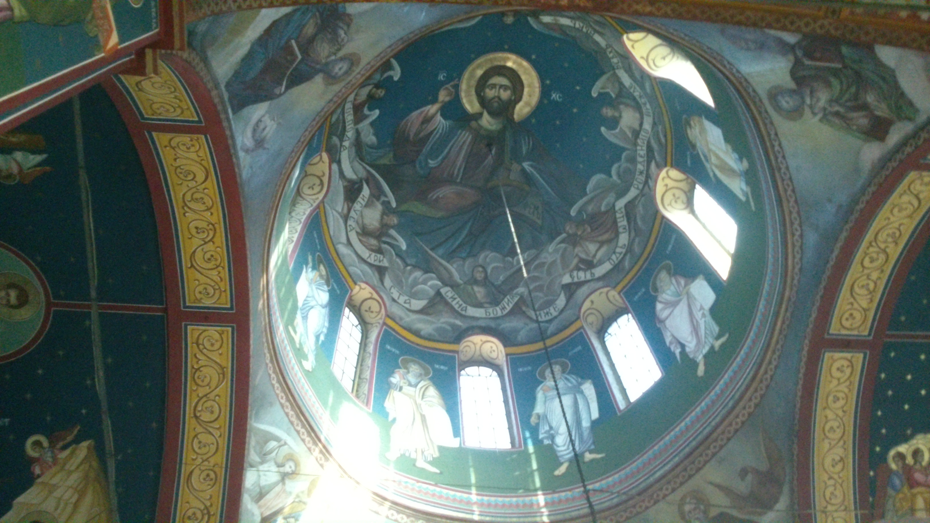 Church of the Theotokos in Gostivar, Macedonia